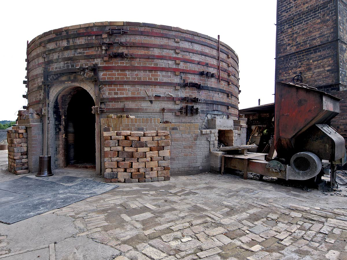 Pottery kiln at Bardon Mill, UK